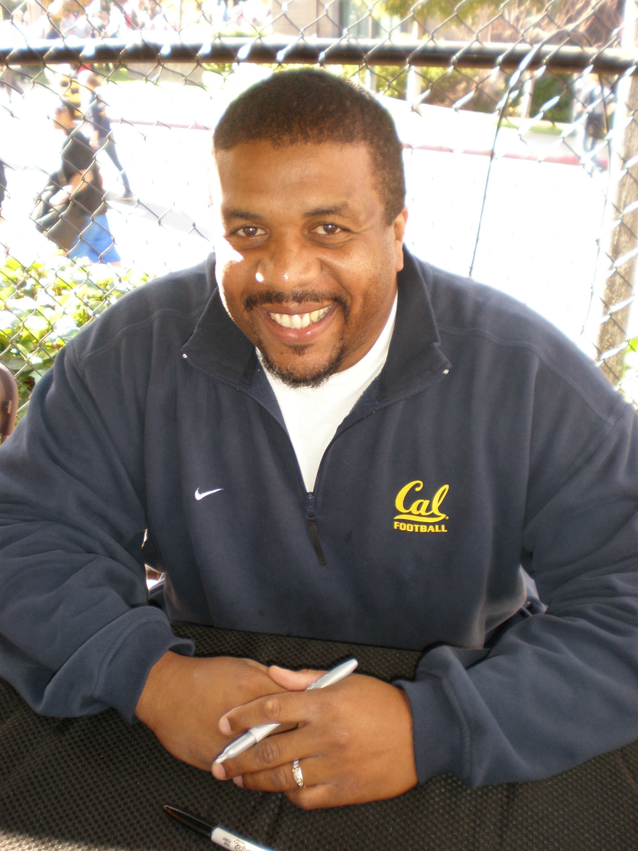 Former Green Bay Packers, LA Rams and California Golden Bears football player Russell White, Cal's all-time rushing leader, making an appearance at the Fun Zone on Maxwell Family Field prior to the 2008 Big Game at California Memorial Stadium. The Golden Bears won 37-16.